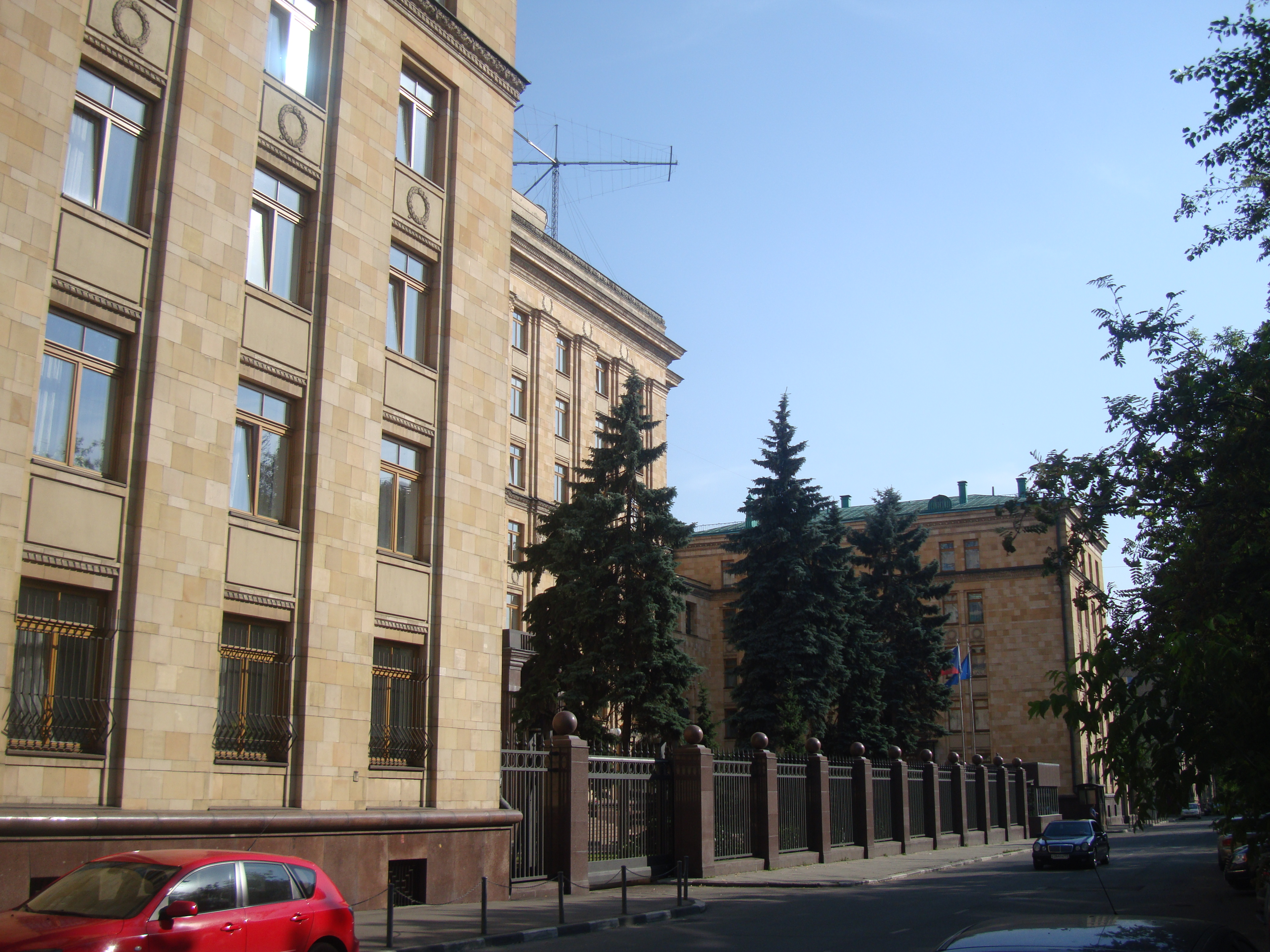 12/14 Julius Fučík street, Moscow, Russia. Embassy of the Czech Republic.